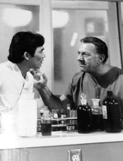 Photo of Robert Ito as Sam and Jack Klugman as Quincy from the television drama Quincy.